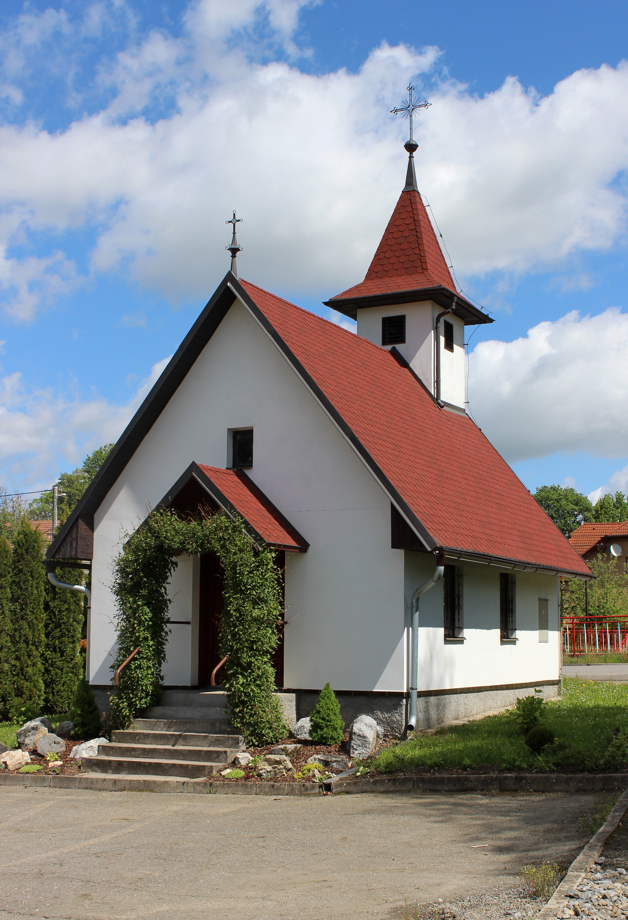 Chappel in Hrbov, part of Polná, Czech Republic